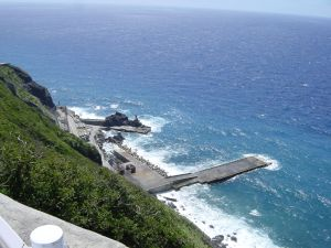 Port of Aogashima Island, Izu Islands, Japan